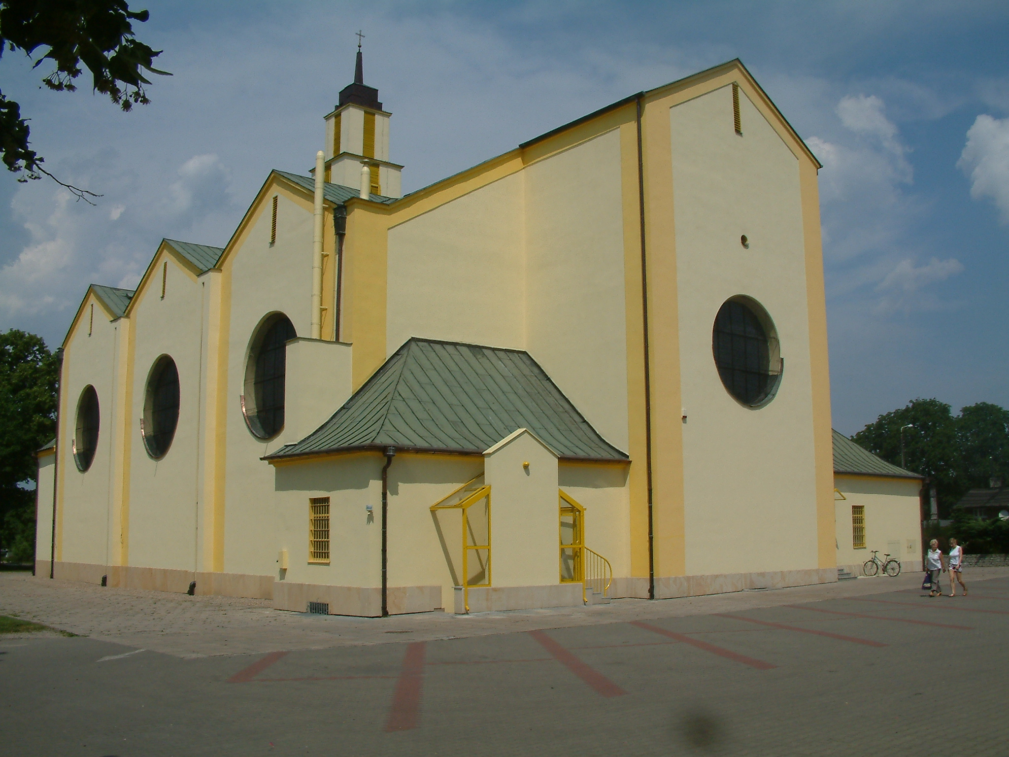 Church of St. Anthony of Padua in Starołęka, Poznań